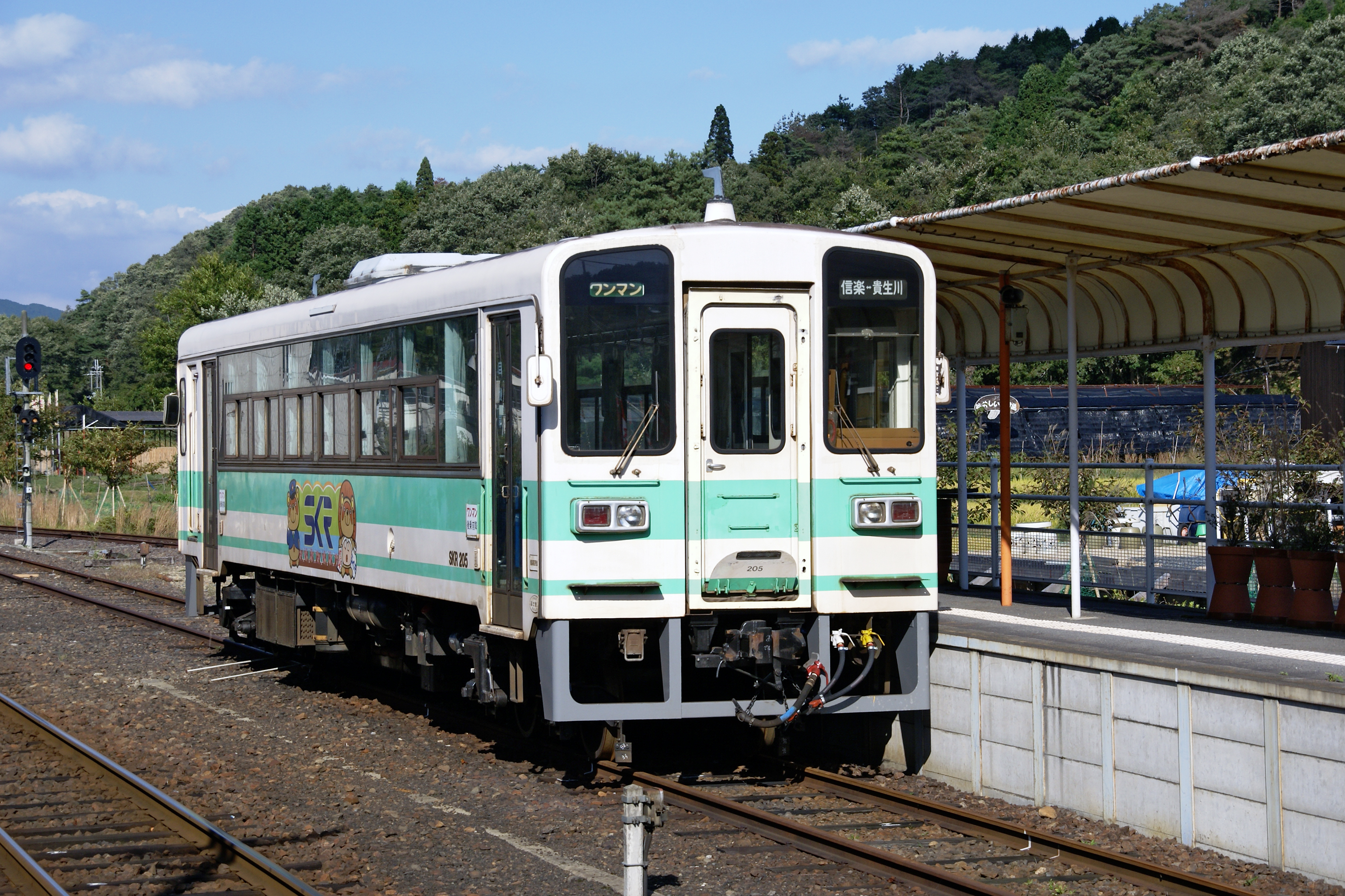 Shigaraki Kohgen Railway SKR200 series DMU car SKR205 at Shigaraki Station in Koka, Shiga Prefecture, Japan